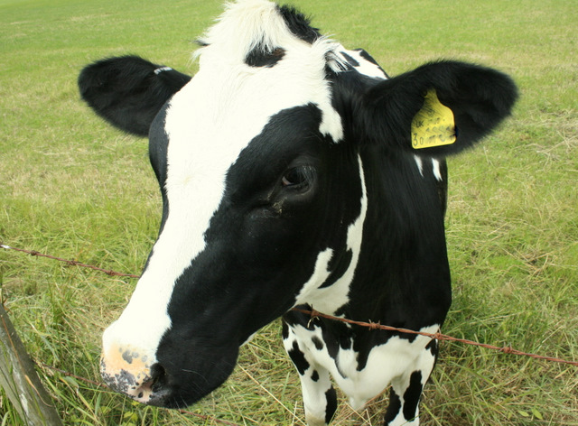 I've got your number dairy. A curious cow or a friendly friesian, definitely not a horrible holstein. Took a great interest in my camera. One of a herd near the bottom of Woodborough Hill. (Sorry about the punishing pun)